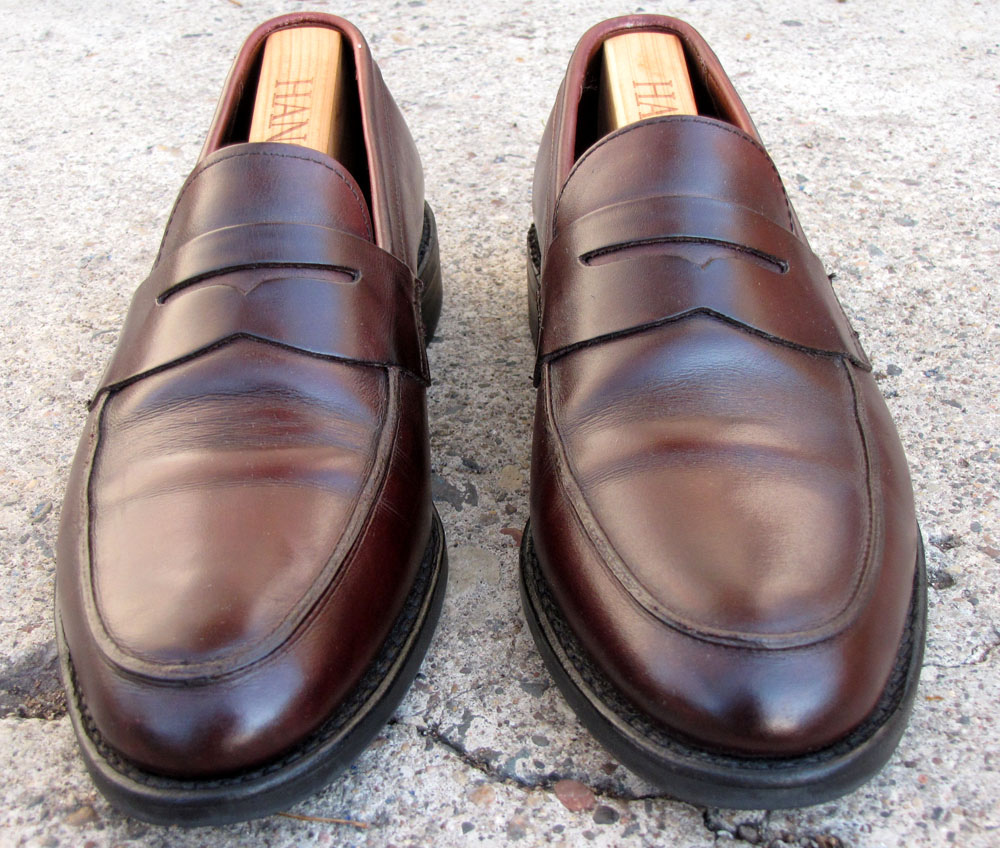 Loafers by Allen Edmonds